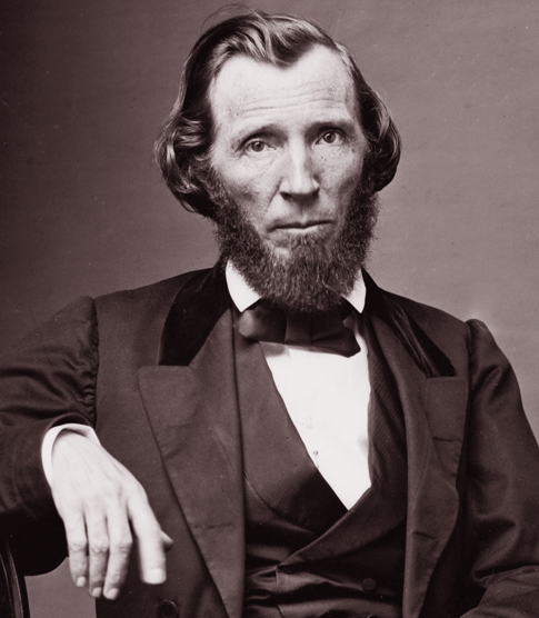 Photographic portrait of Martin J. Crawford with head and shoulders looking forward